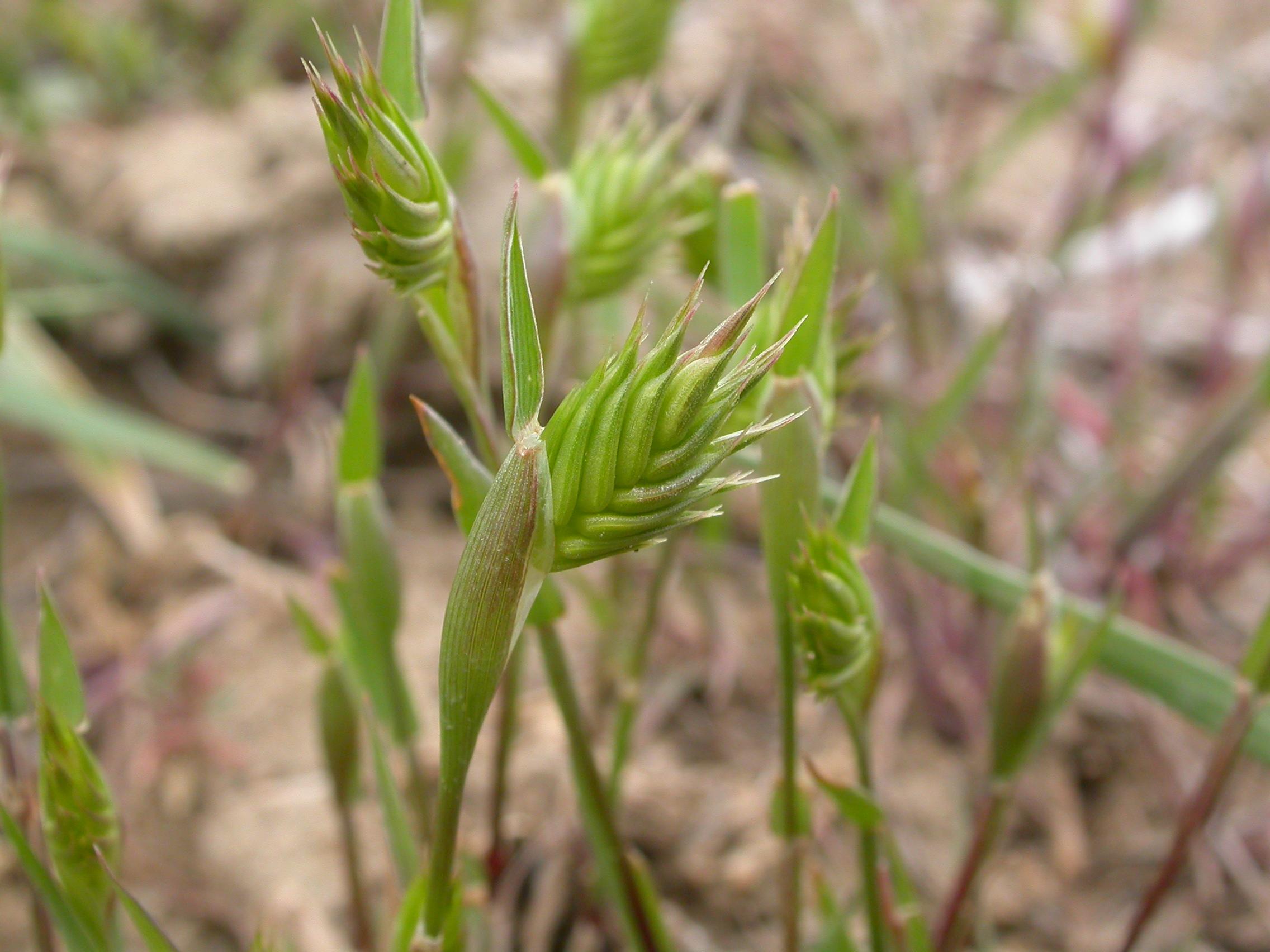 The inflorescence or terminal spike becomes a solid burr-like structure at maturity.